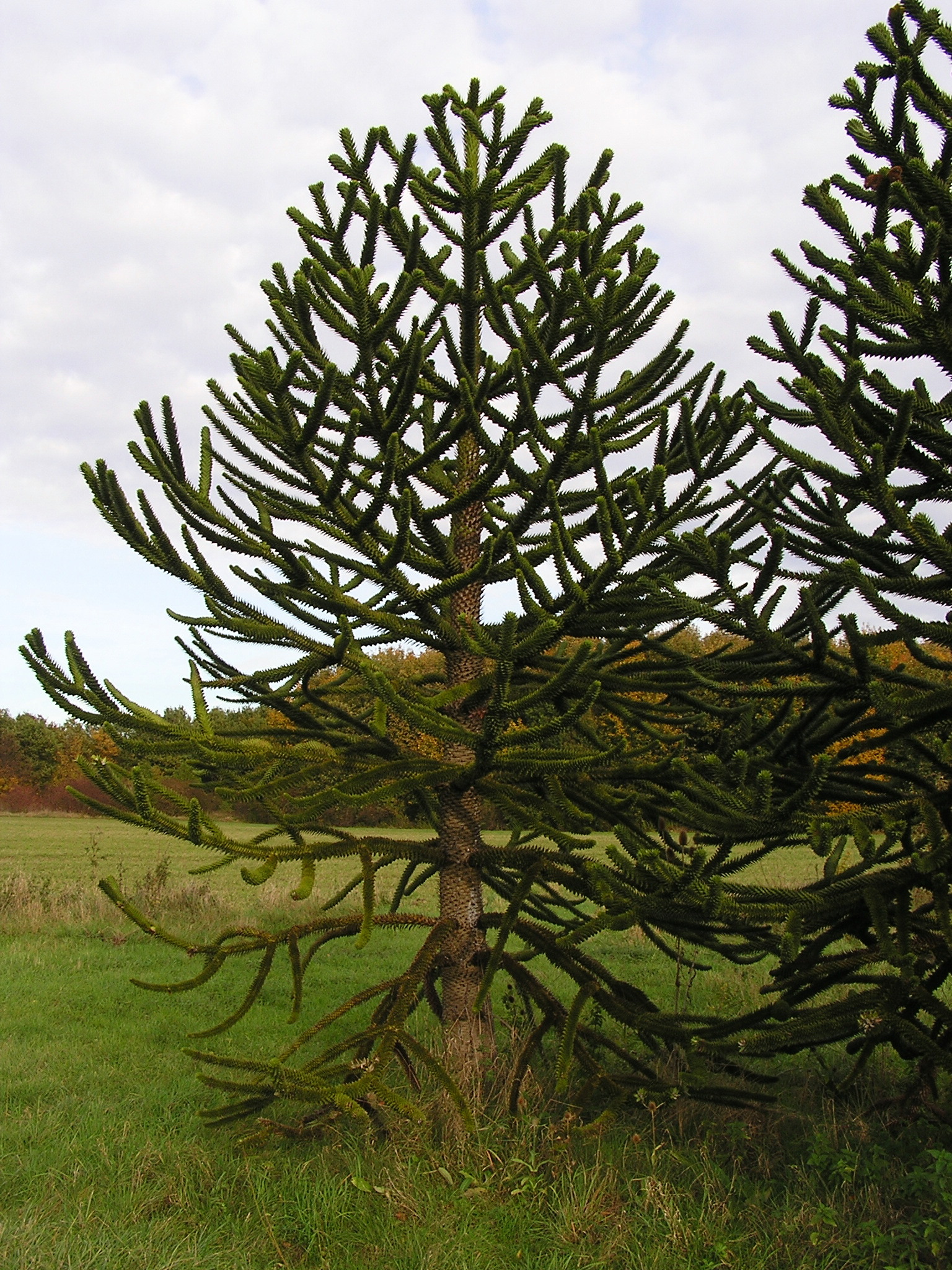 Monkey puzzles in the Arboretum Main-Taunus